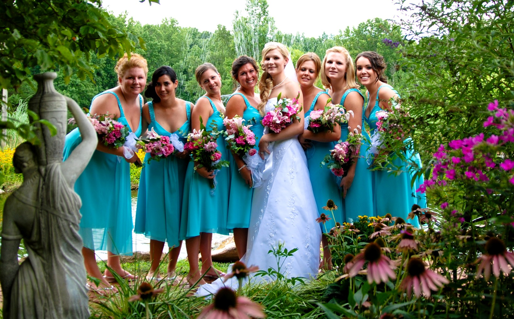 Bridesmaids